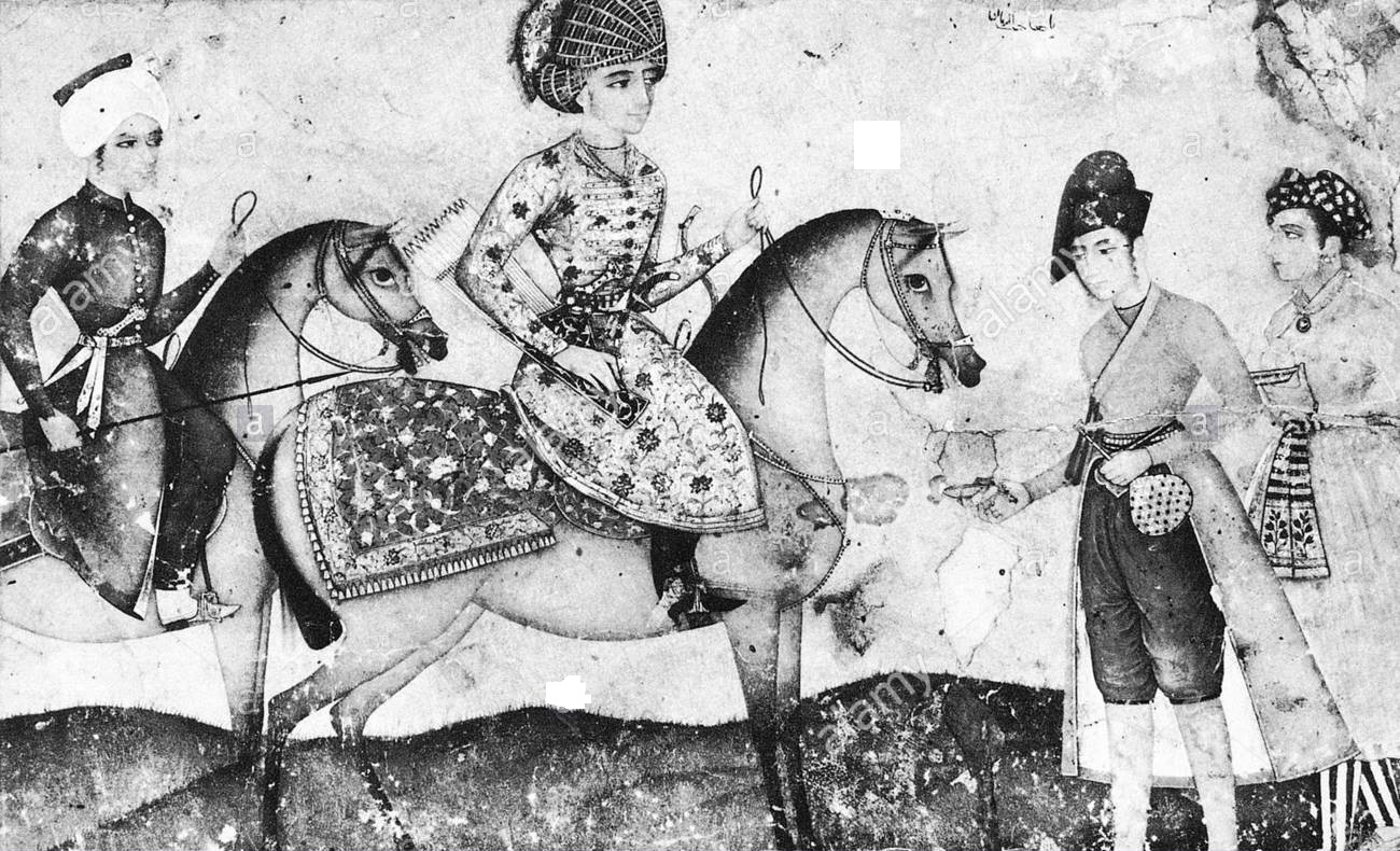 Shah Suleiman I of Persia With His Attendants